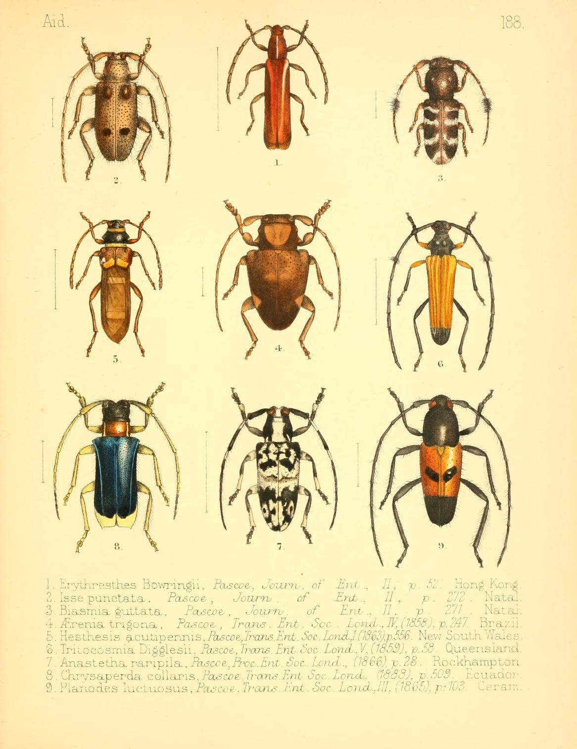 Aid, 188. . . EryLnrestKes Bowingn, Fascoe, Jciu^ri . of Eva: .^ II , p.Sc. Hong Kong. 2. Isse punctata. Pascc& , Jouryx' . of Erit .. 11, p. Z'I2 . Natal. 3. Biasmia guttata, Pcxsoo^ , Jourrv . of Rrit.,. H , ^ V ^-"^^ ■ Nataj. 4.i£rerLia trigona, Pcusooe. , Trans . Prut . Soc . Loyxd,.,IV, (1856),-p.Z47. Bra/.il. 5. HestKesis a.culiperxn\s,Fa^cveJran^.Erit.Soc-.lond.J.flS62j,p.556. Nev7 South. Wales. lo . Tritocosmia Digglesii . Fascoe., Trojis. Ent. Soo. Lond., V, .1853., p. 58. Que ens land. 7 . Anastetha ranpila , Fascce,3vc.Erit. Soc. LonA., 0866)., p. 28. PvockKampton 3 . ChvyseLperda,. collavis, Fouscx.e.lranx:,\Ent:Soc..Lorvci:. \1SS3J, p. 503. Ecuador'. 9 . l^lanodes luctuosus , PoLscve-. Trocn..? . .Ent . Soc. Loyui.Jli (1865), p: 103. Cevanx.